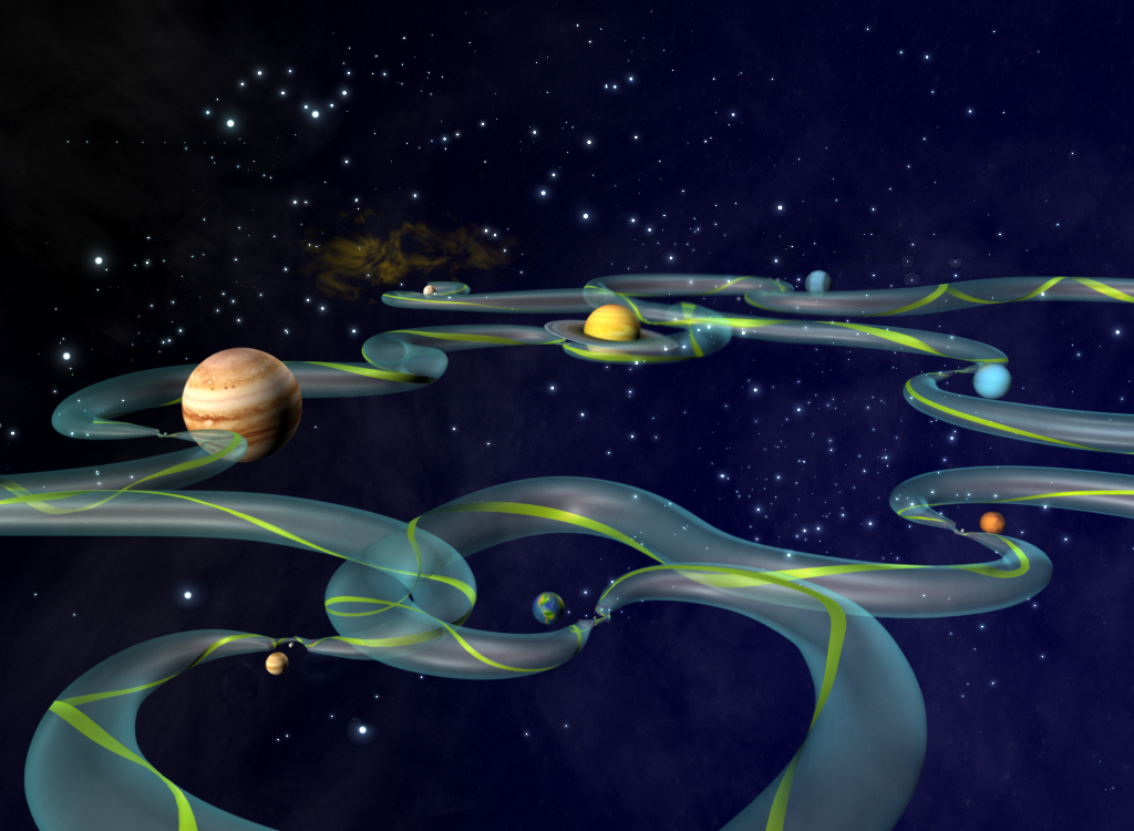 Artist's concept of the Interplanetary Transport Network. The green ribbon represents one possible path from among the infinite number possible within the larger bounding tube. Constricted areas represent locations of Lagrange points.